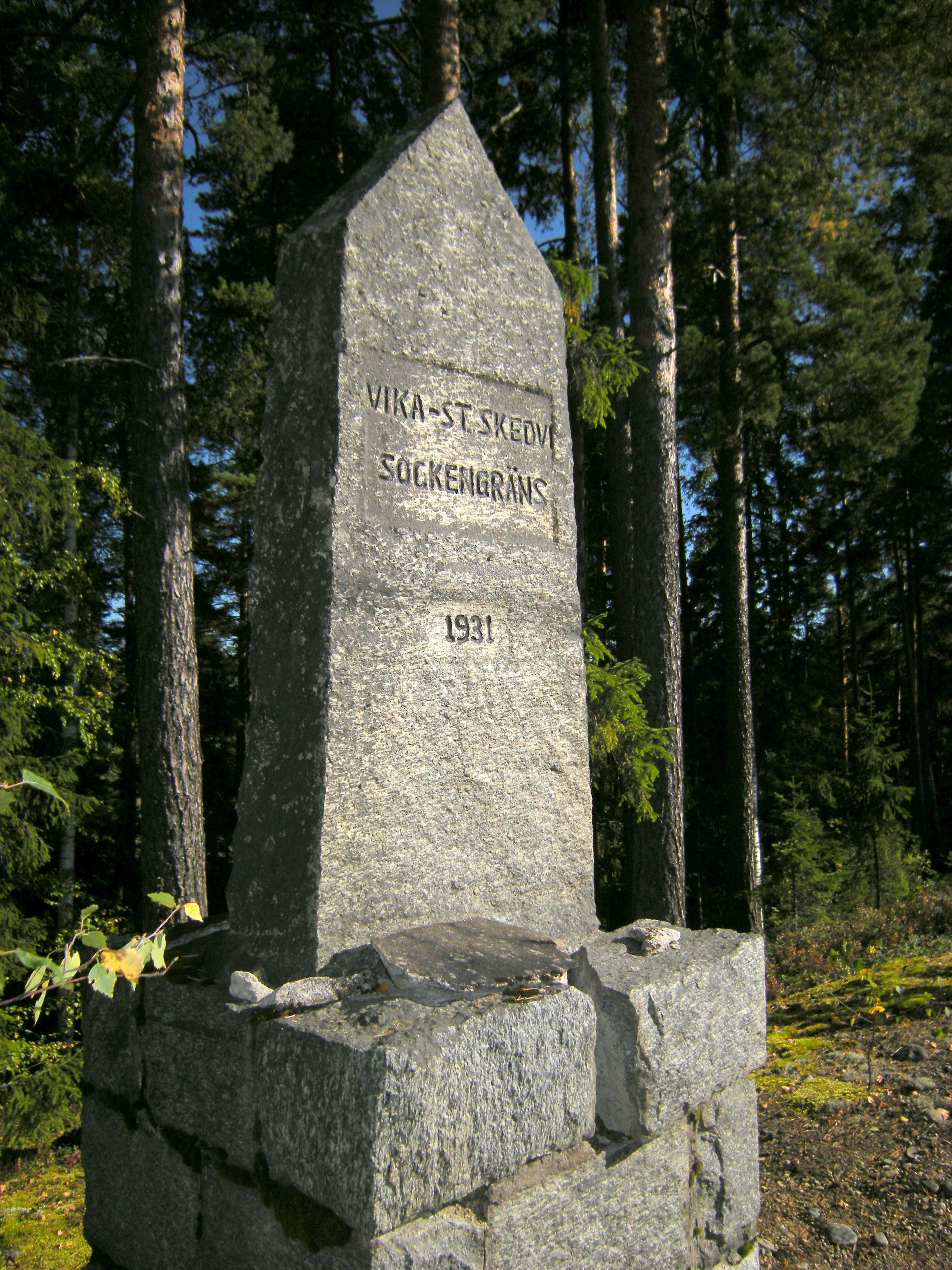 Boundary stone at regional road 293, near Lilla Klingsbo, marking the border between Vika and Stora Skedvi parishes, Sweden.